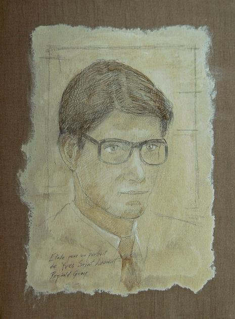 graphite drawing and egg tempera on canvas